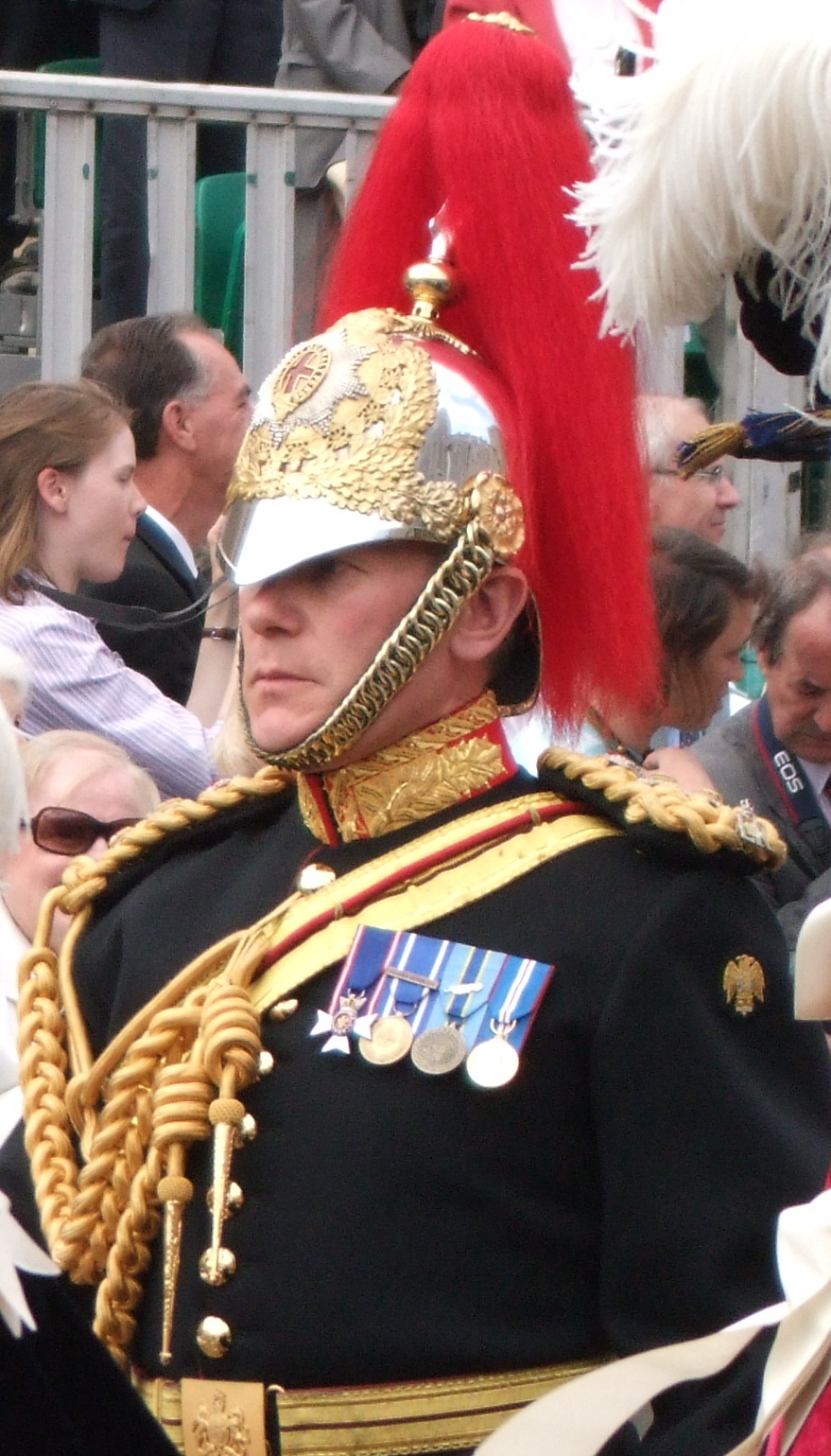 Colonel Paddy Tabor